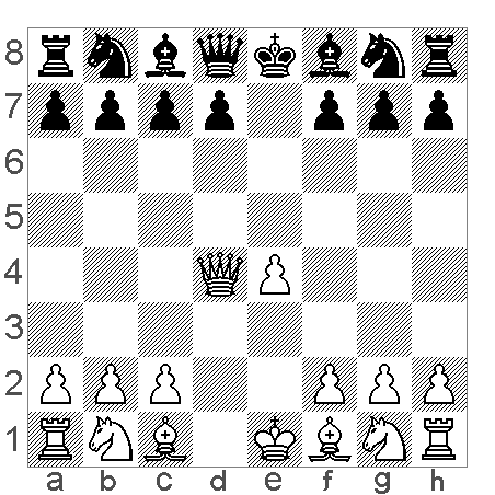 chess diagram Central game Source: CBlight + my processing